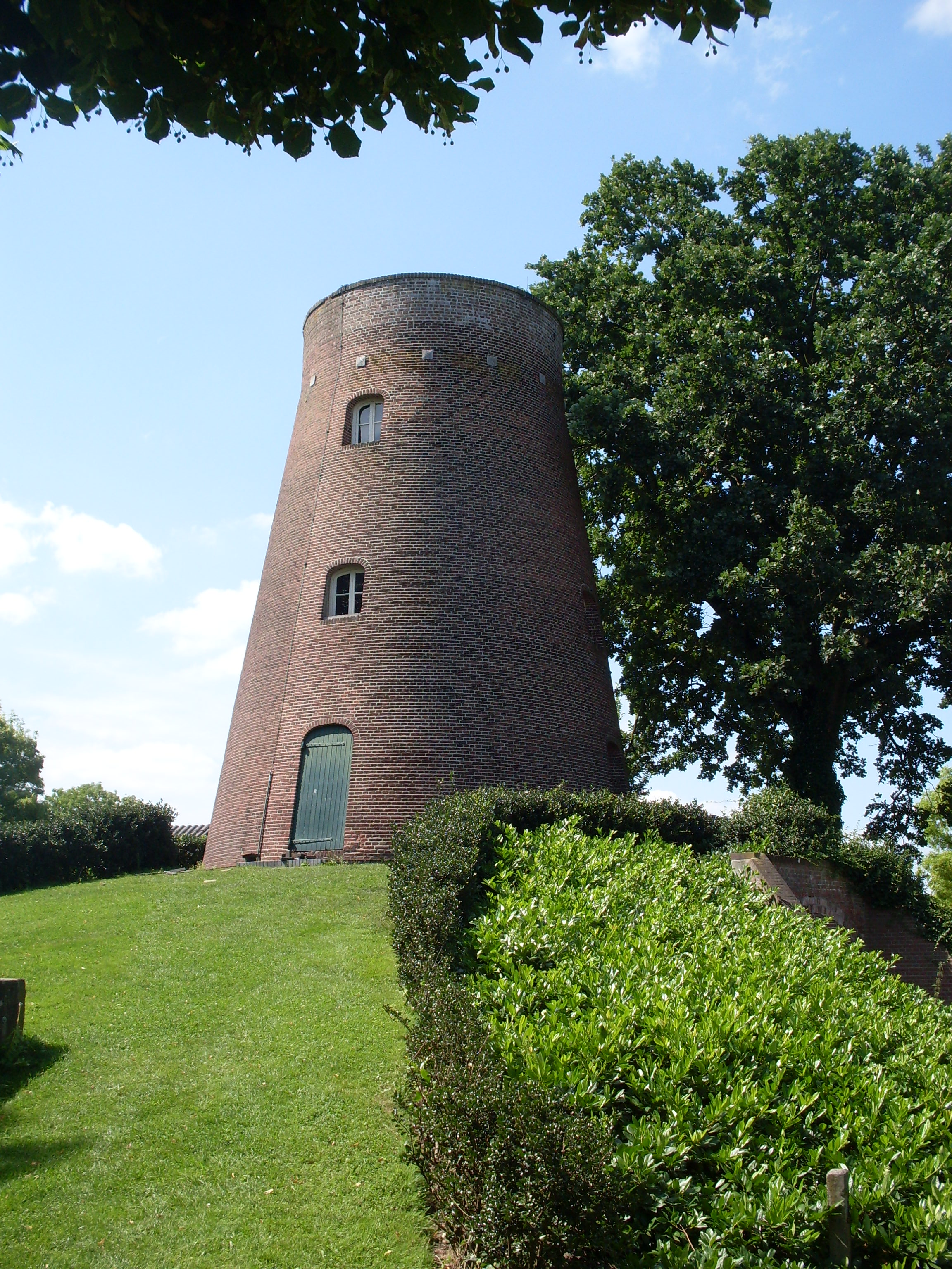 kwaksmölle, Doetinchemseweg bij 48.